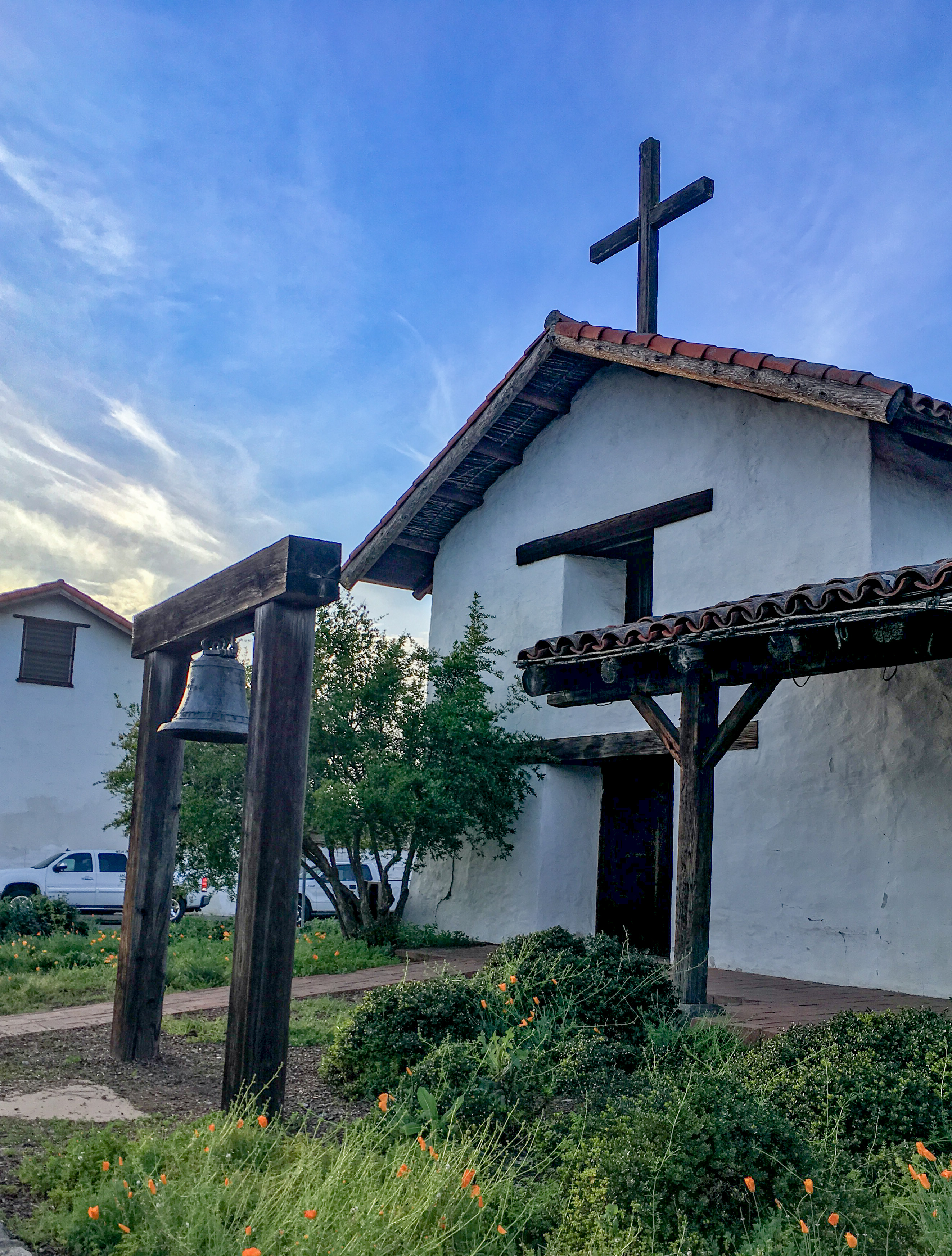 The last northernmost mission, Mission San Francisco Solano